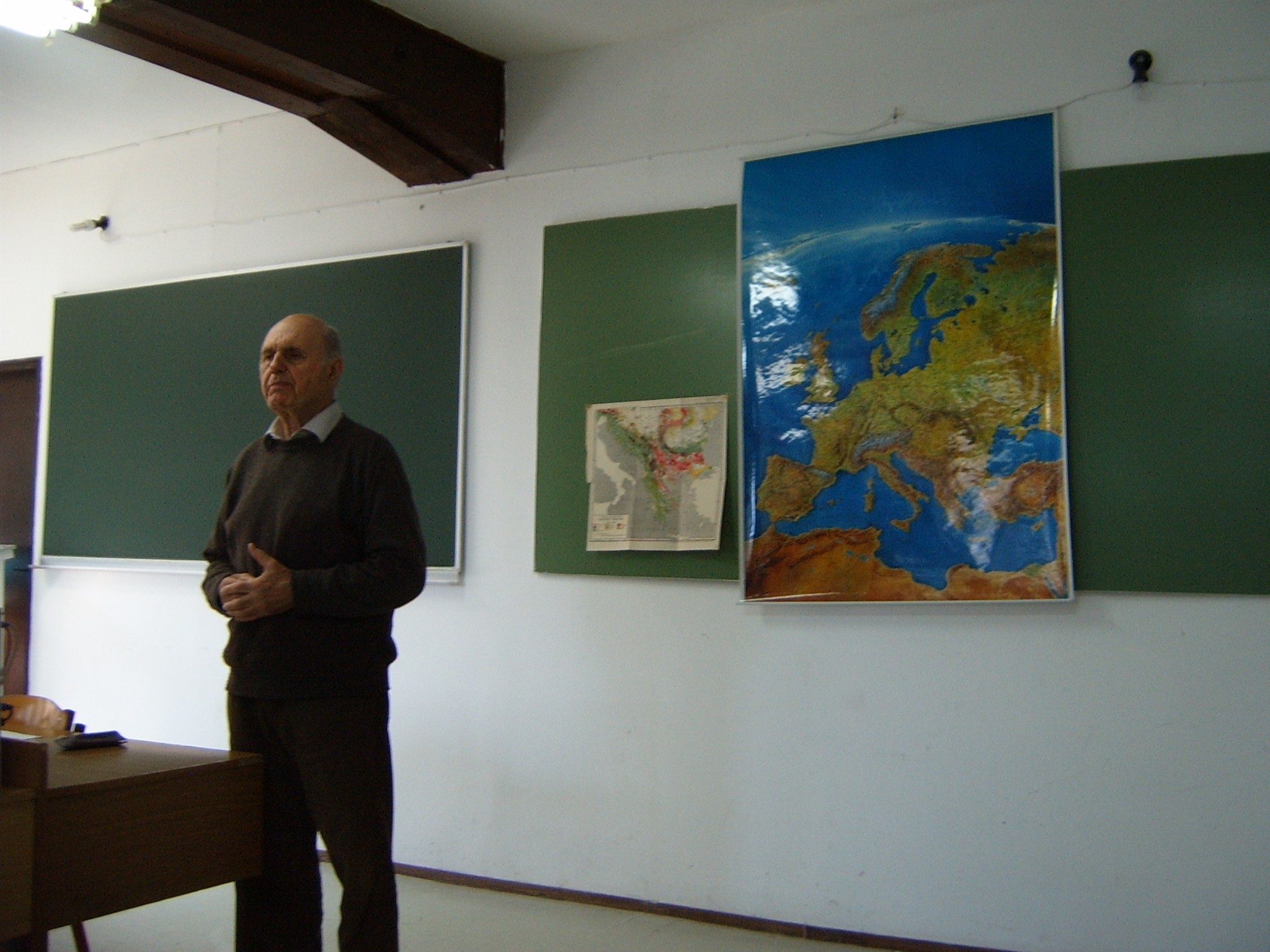 Aleksandar Grubic, presenting "Geology of the Balkan Peninsula" in Petnica Science Center